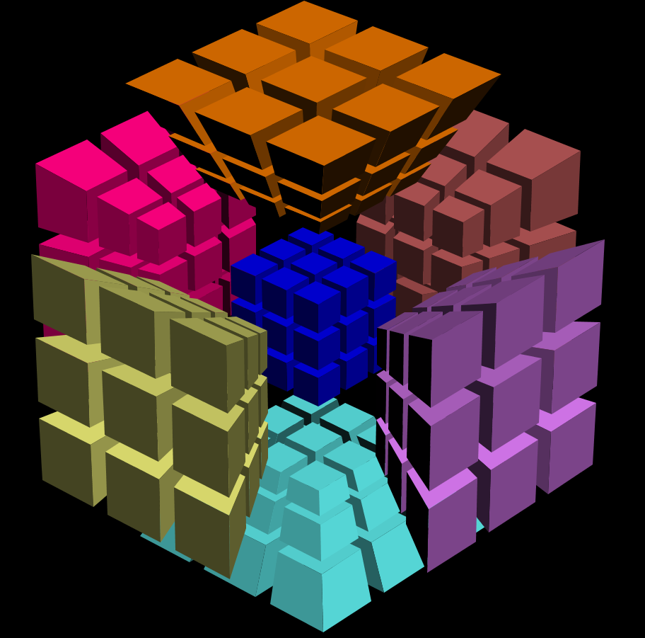 4D virtual 3x3x3x3 sequential move puzzle, solved